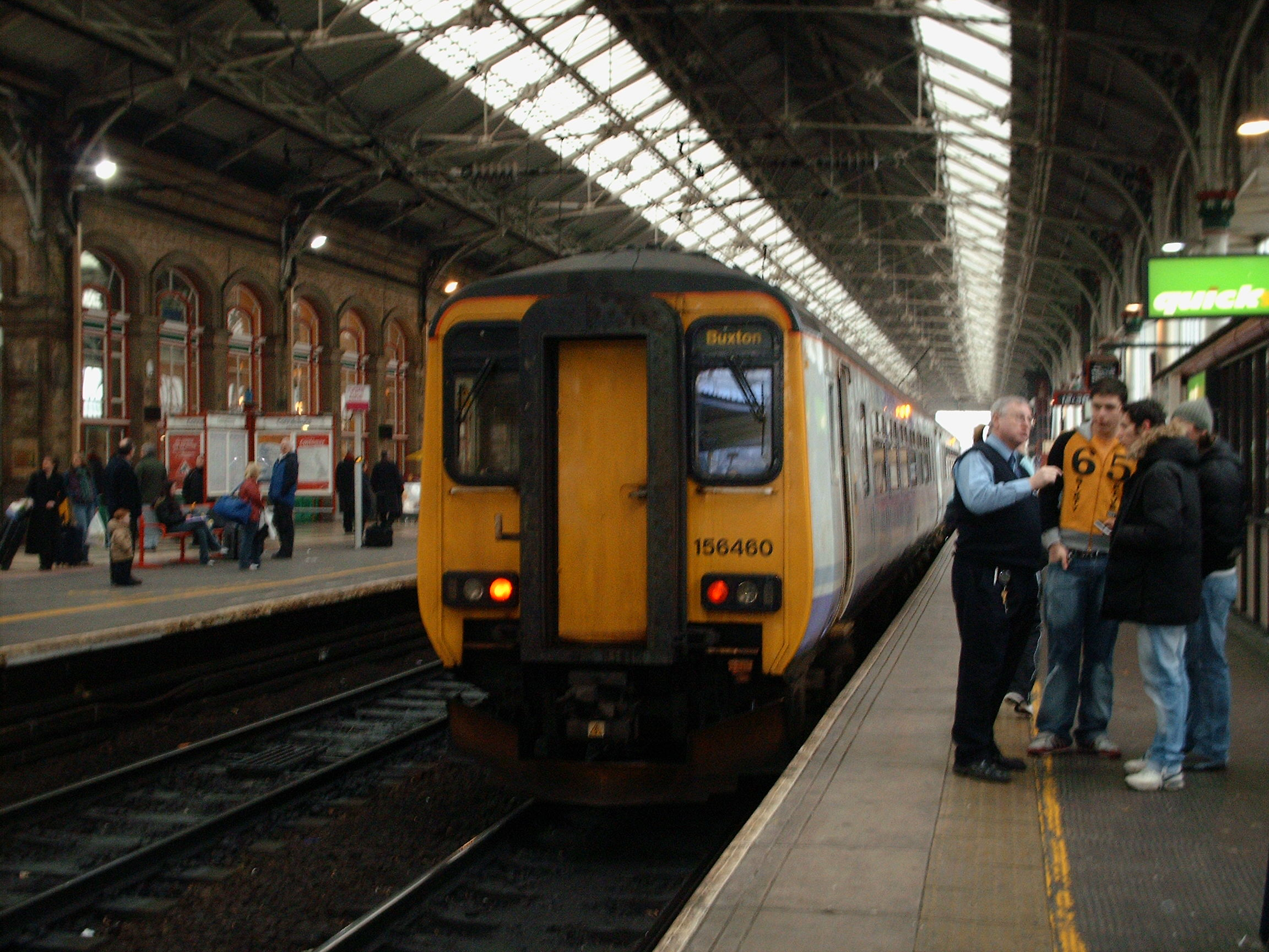 taken by me 31 January 2006 Blackpool North-Buxton Service on 31 January 2006 at Preston